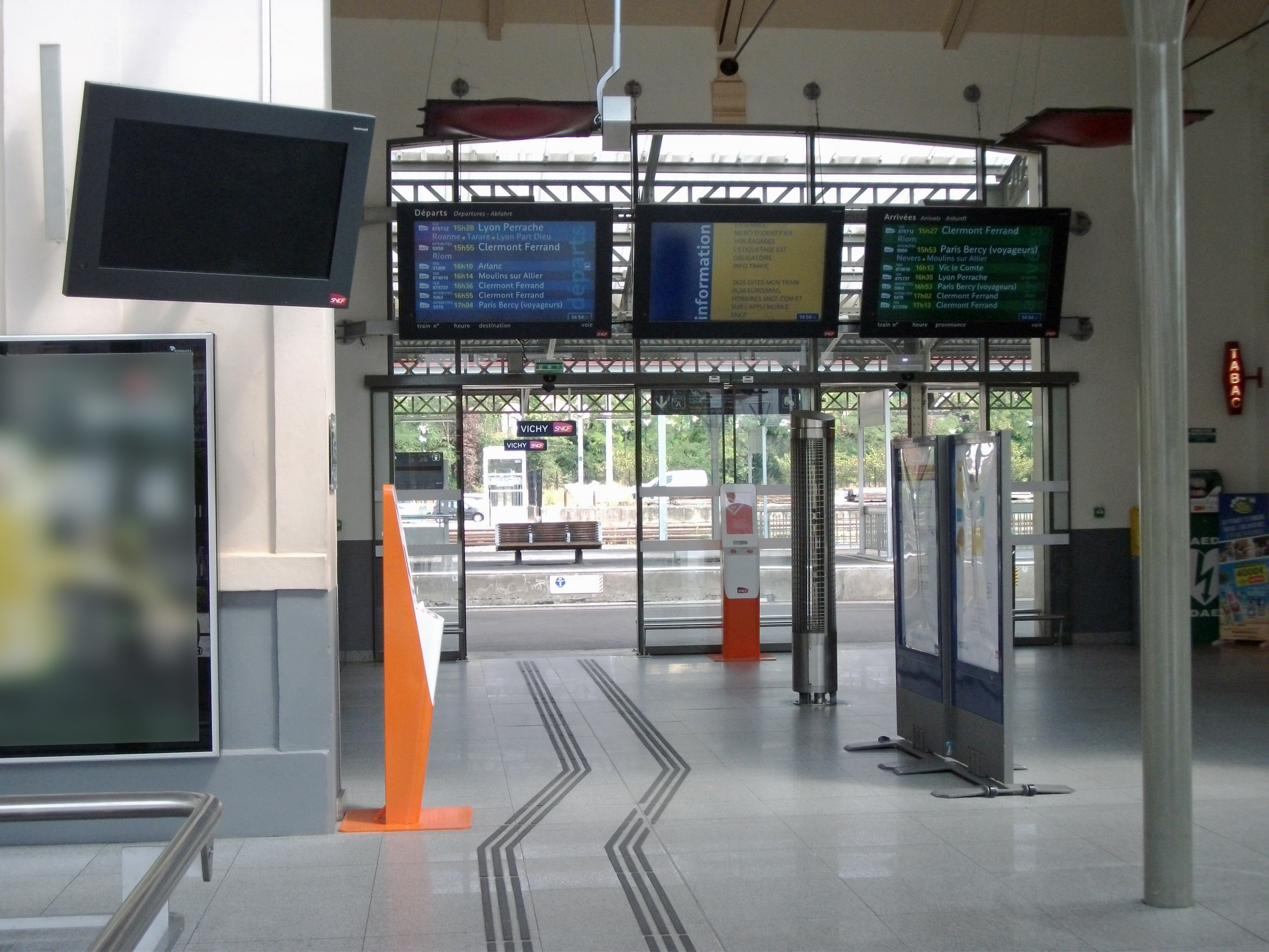 Hall of Vichy railway station with new LCD displays installed since early April 2015 (unattributed screen and doesn't work, departures, information and arrivals). Picture taken less than one meter before one of the two main entrances. Hour: 14:54:25 or 26 or 28 or 29 [8531]